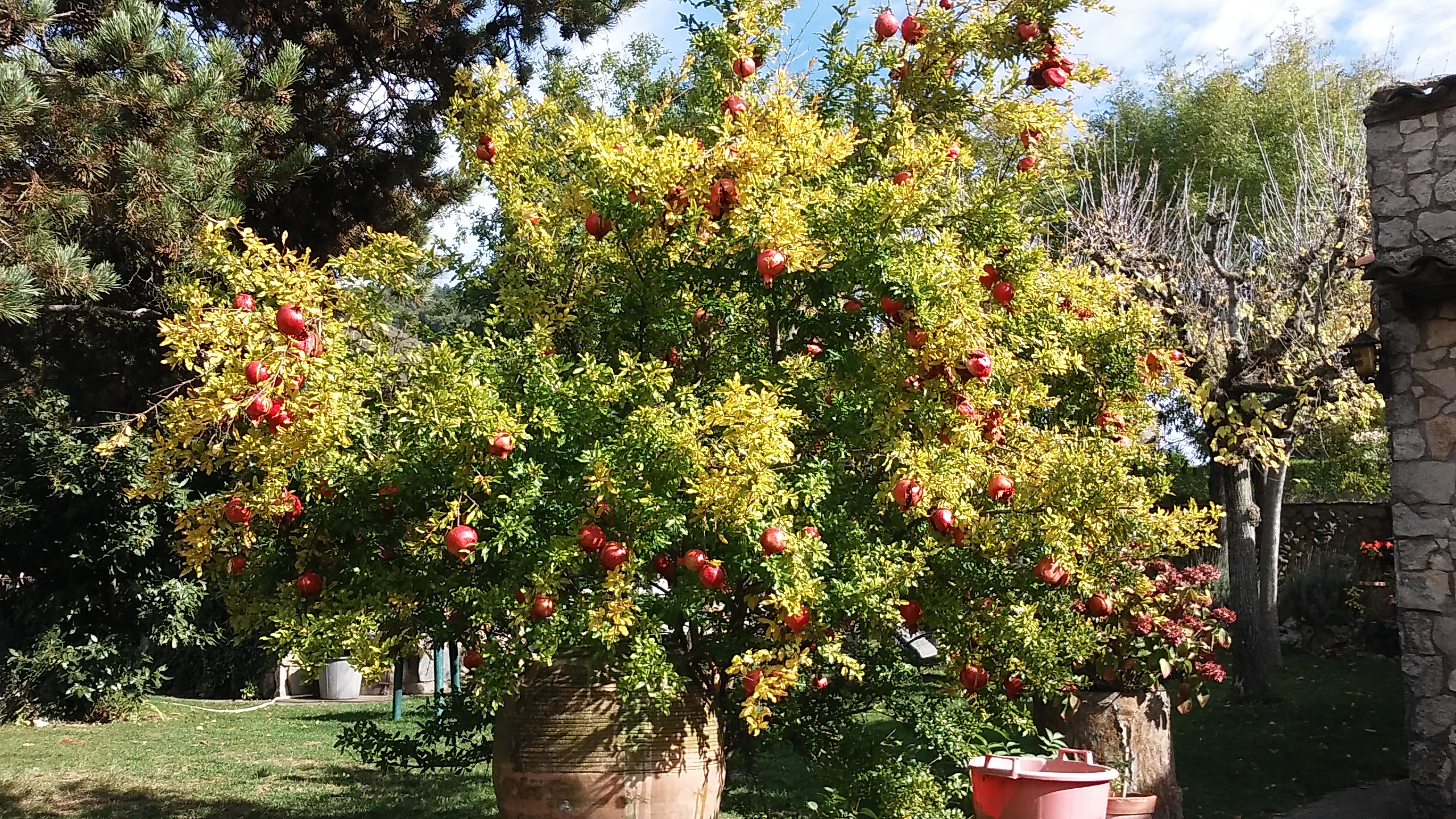 Autumnal pomegranate tree in the town of Tavertet